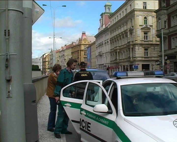 art is not crime